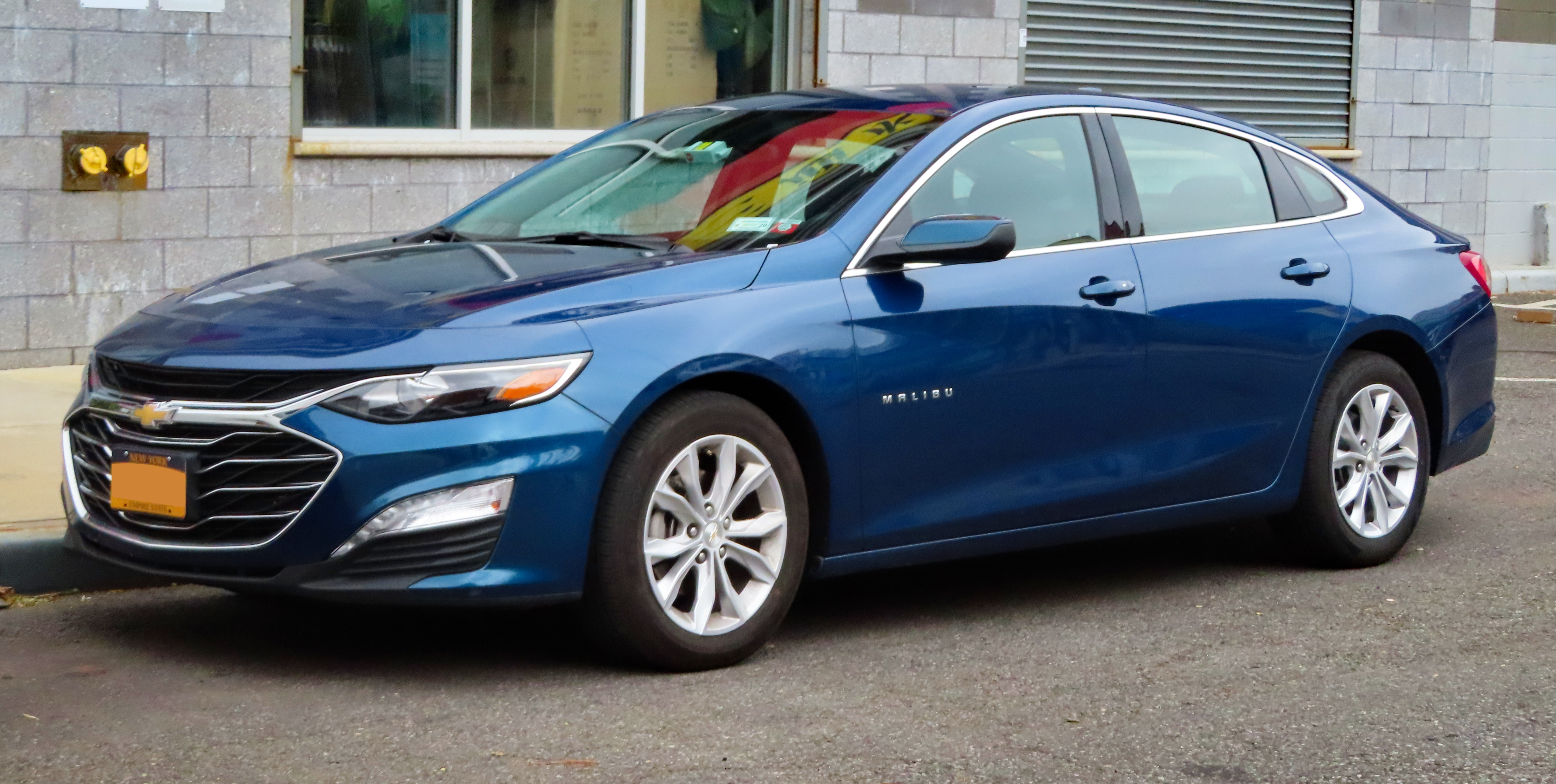 A 2019 Chevrolet Malibu facelift photographed in Flushing, Queens, New York, USA